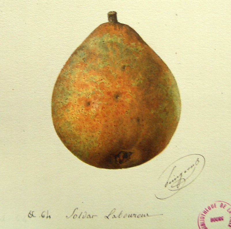 Soldat Laboureur.